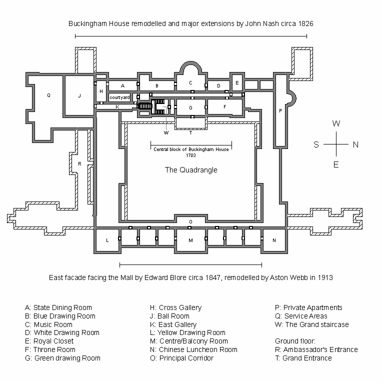 Unscaled and simplified room plan of Buckingham Palace. (It should be noted that, until future update, this is not an entirely accurate depiction of the Principal Floor of Buckingham Palace. One important difference is that the picture gallery between rooms C and G is a broad room rather than a narrow corridor.) Key A: State Dining Room; B: Blue Drawing Room; C: Music Room; D: White Drawing Room; E: Royal Closet; F: Throne Room; G: Green drawing Room; H: Cross Gallery; J: Ball Room; K: East Gallery; L: Yellow Drawing Room; M: Centre/Balcony Room; N: Chinese Luncheon Room; O: Principal Corridor; P: Private Apartments; Q: Service Areas; W: The Grand staircase. On the ground floor: R: Ambassador's Entrance; T: Grand Entrance. The areas defined by shaded walls represent lower minor wings